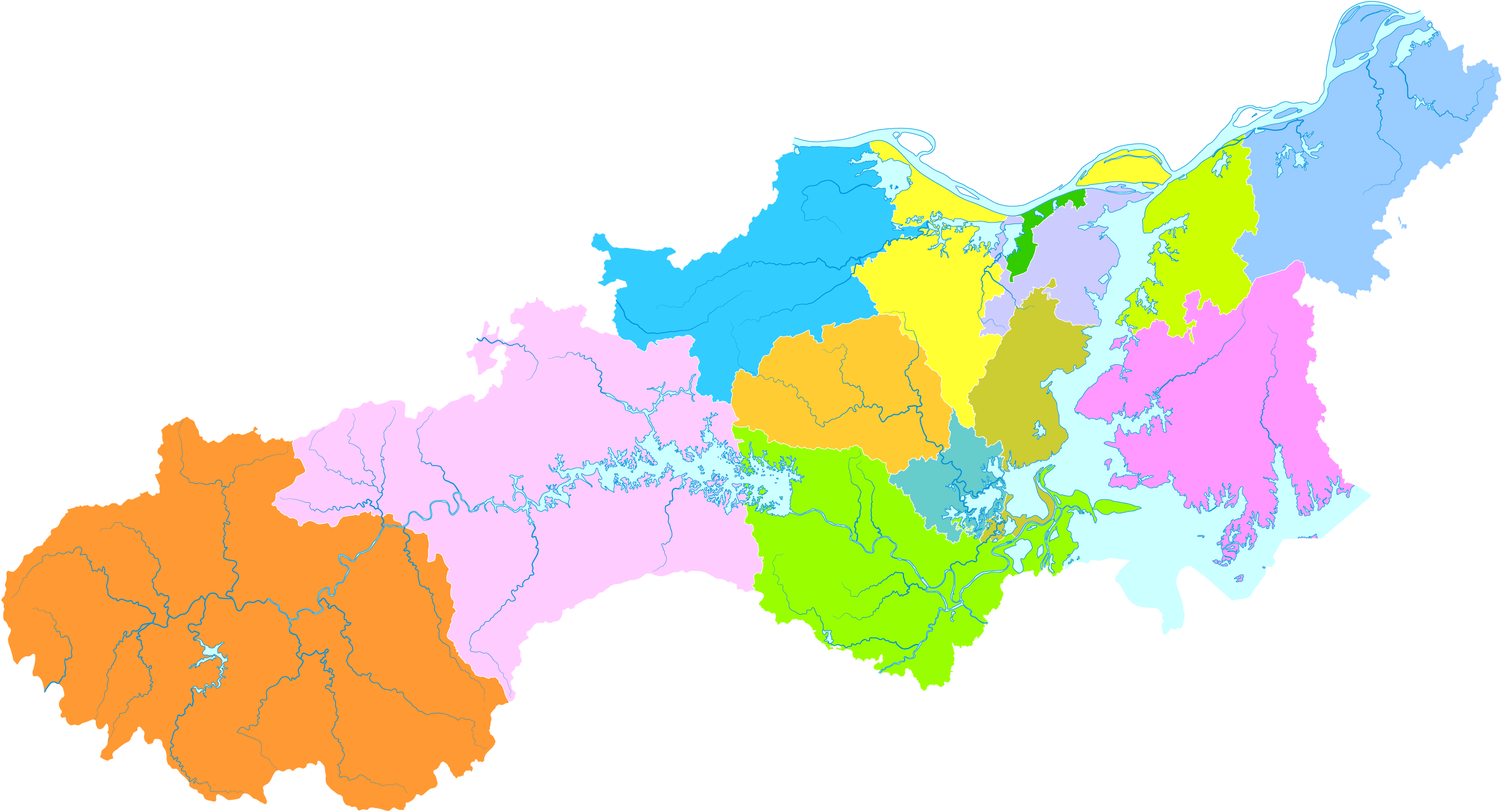 administrative divisions of Jiujiang City, Jiangxi, China